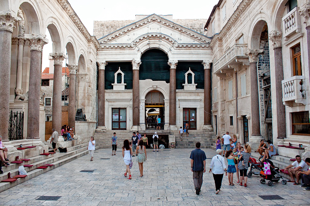 Peristyle square in Split